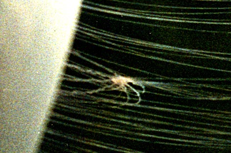 aurelia image uwe kils gfdl self